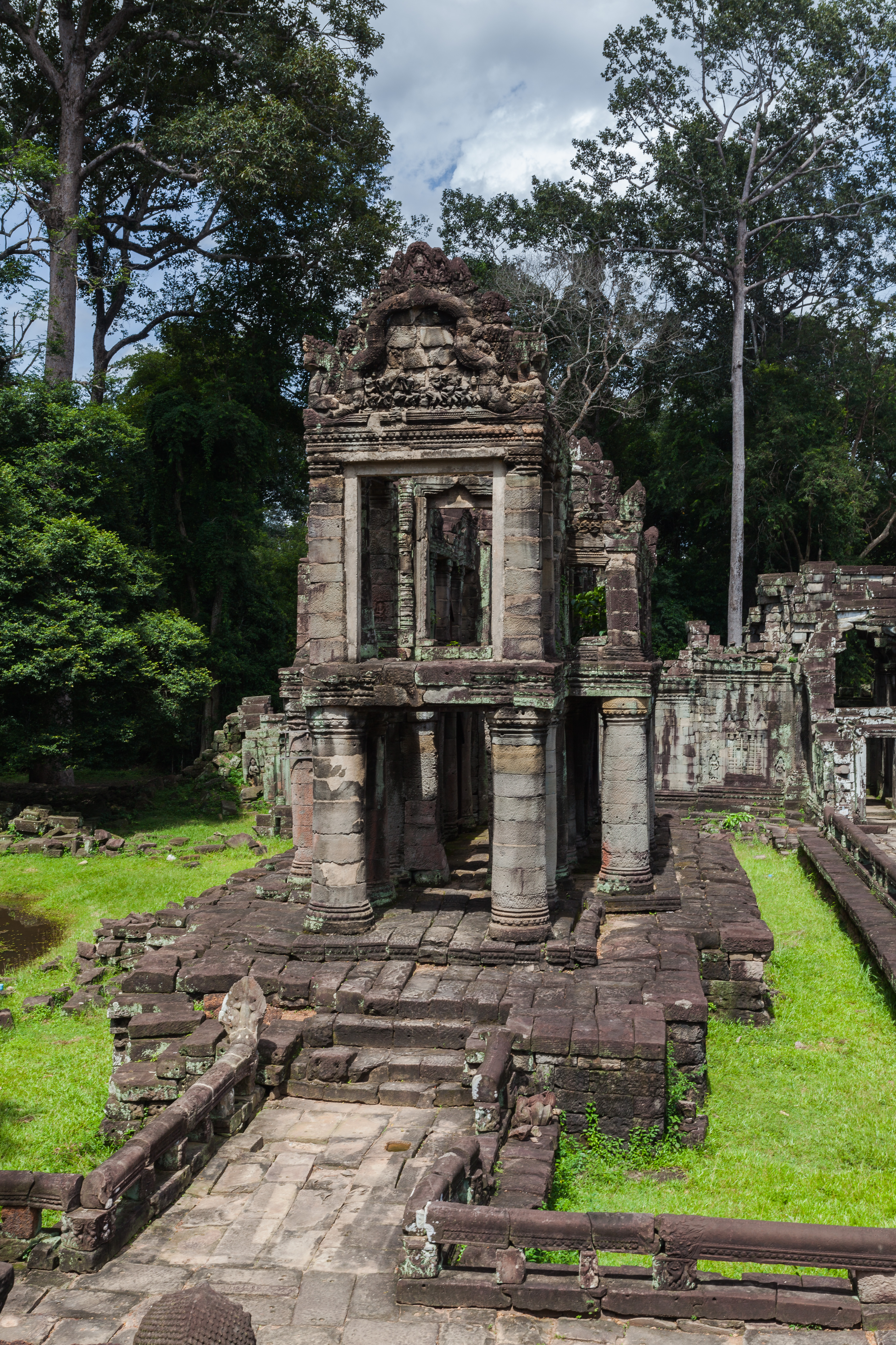 Preah Khan, Angkor, Cambodia